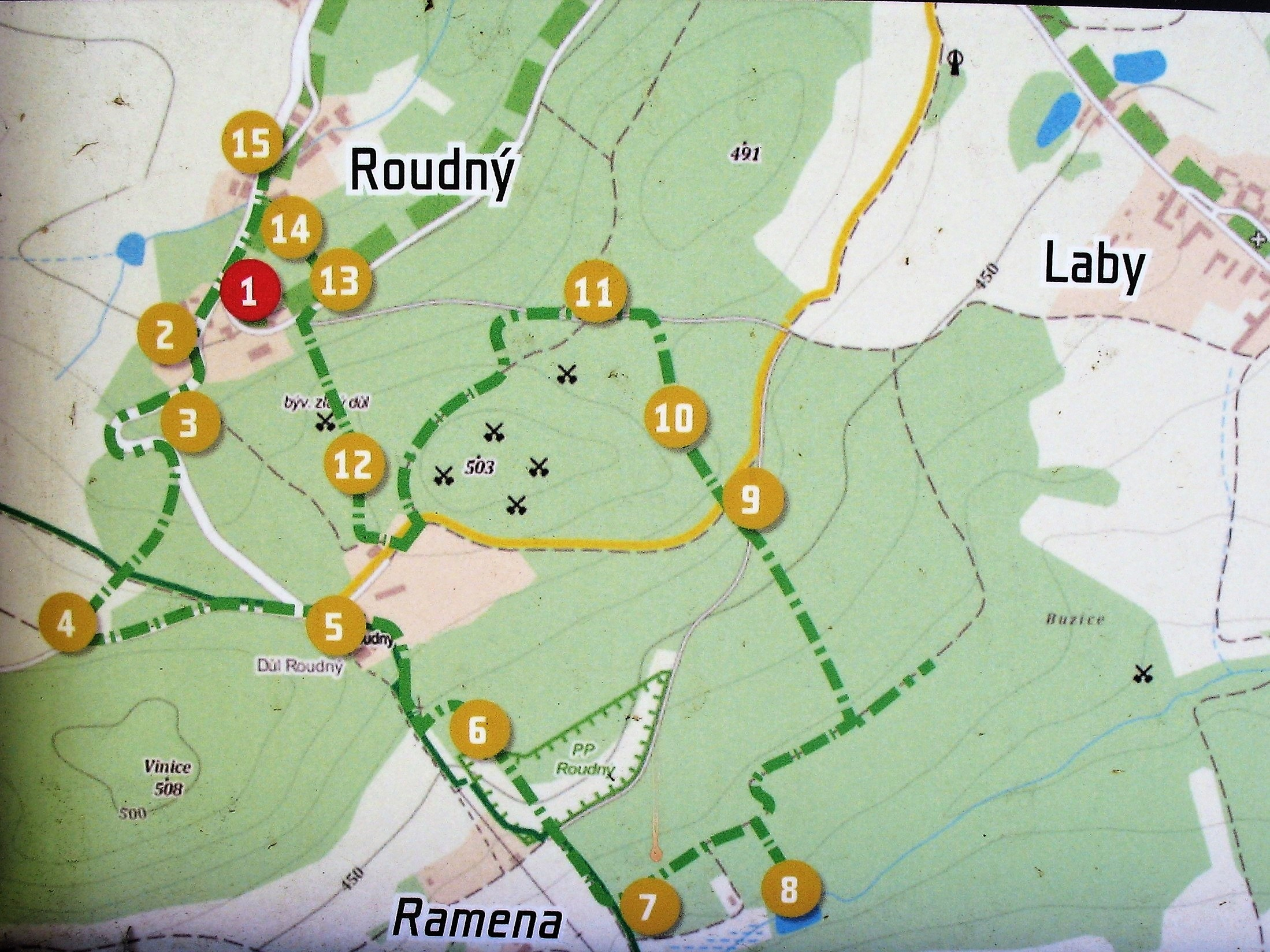 Former Roudný gold mine, Central Bohemia